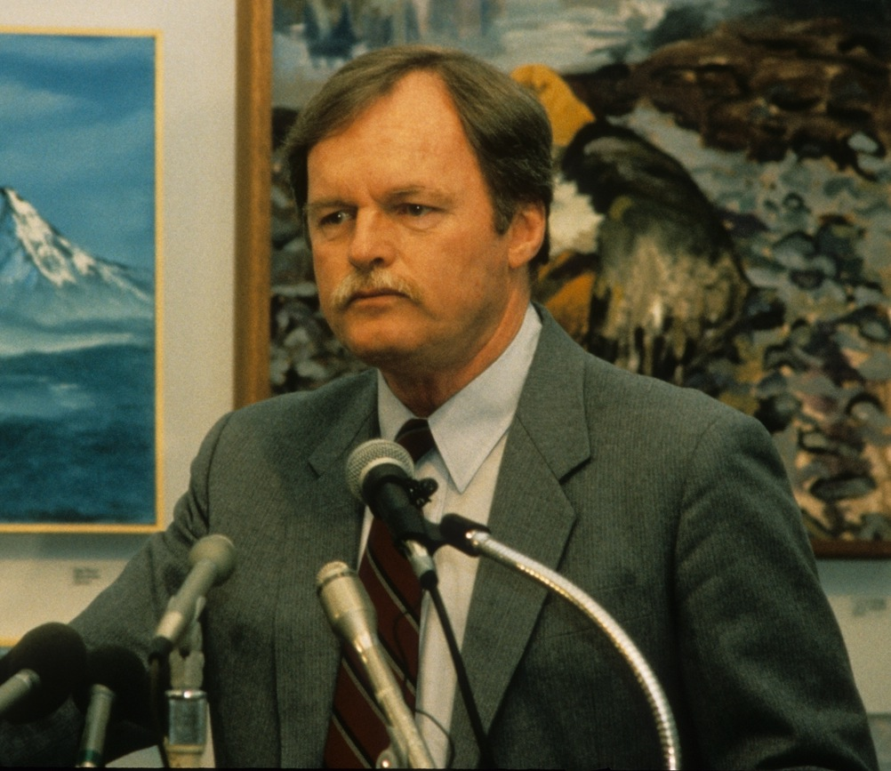 Alaskan Governor Steve Cowper is questioned by the press during the Exxon Valdez one year anniversary press conference (wide shot) - Visual Arts Center, Anchorage. March 23, 1990 Public Domain